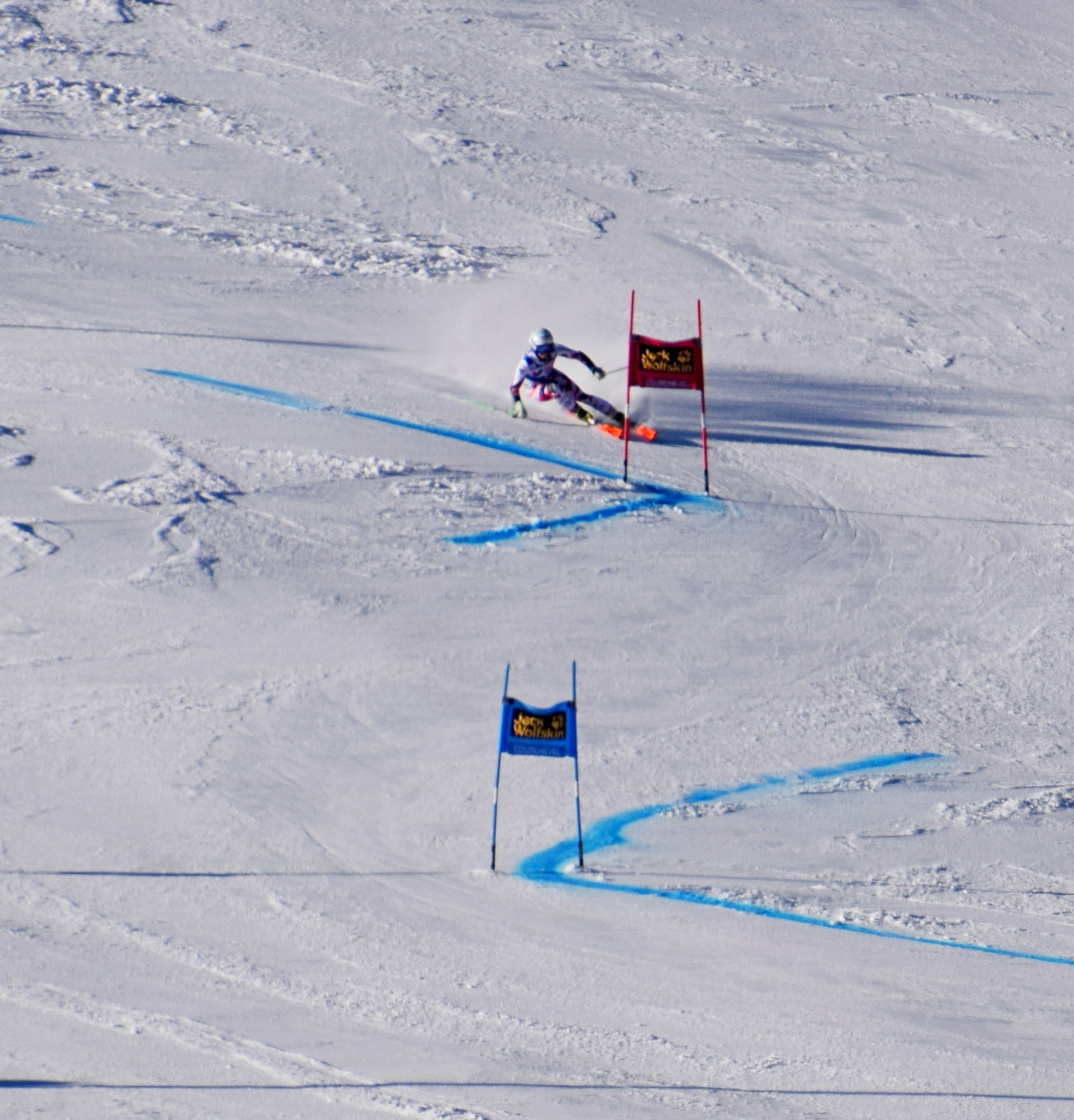 Eva-Maria Brem, 1 run of Giant Slalom, Alpine Skiing World Cup of Women in Courchevel, 20 december 2015